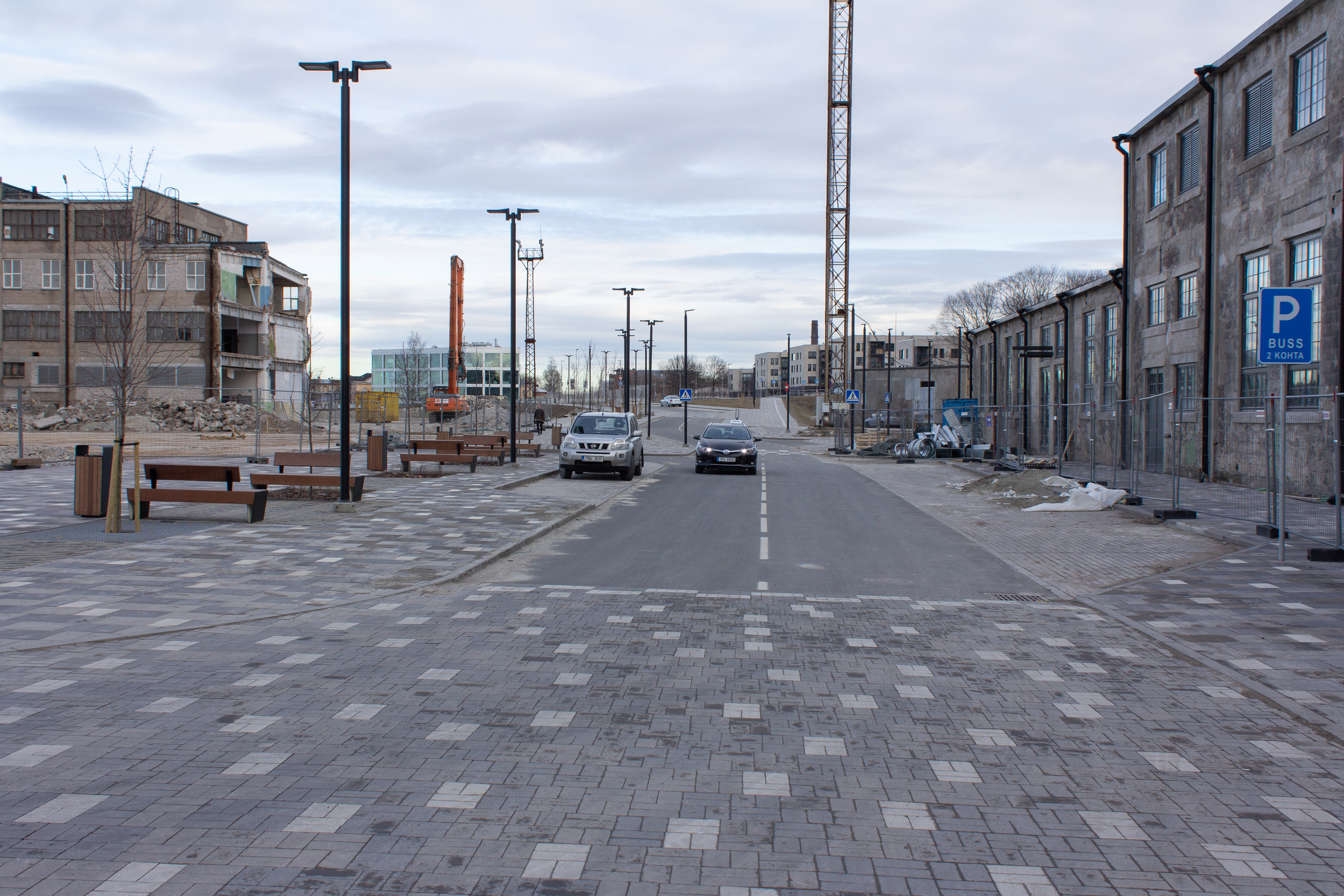 Allveelaeva Street in Tallinn (Estonia), March 2019